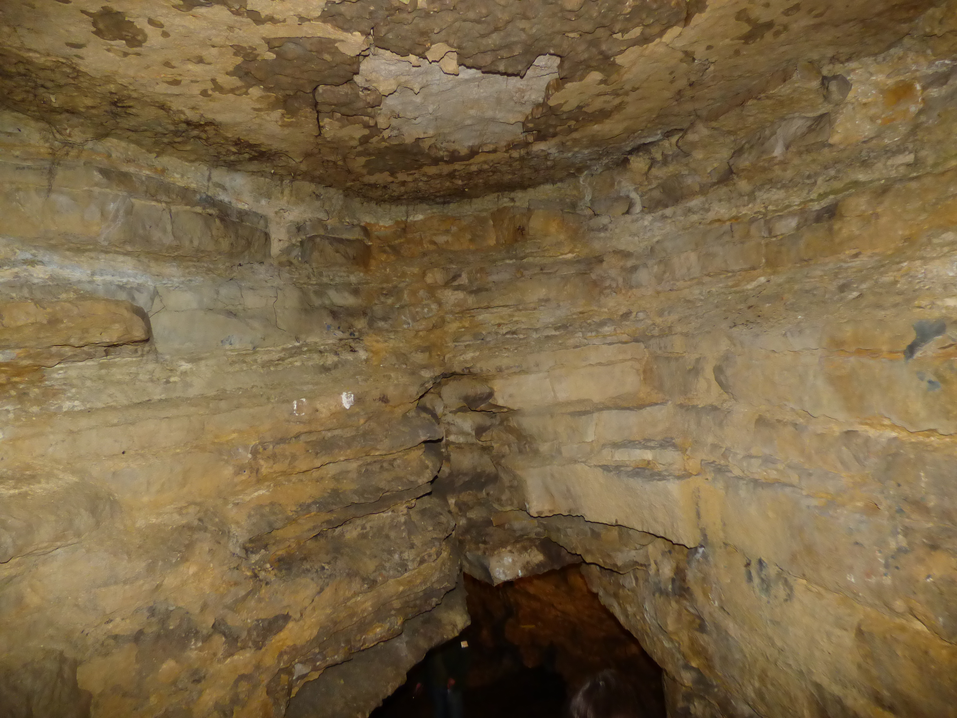 Lóczy-barlang 2016 01